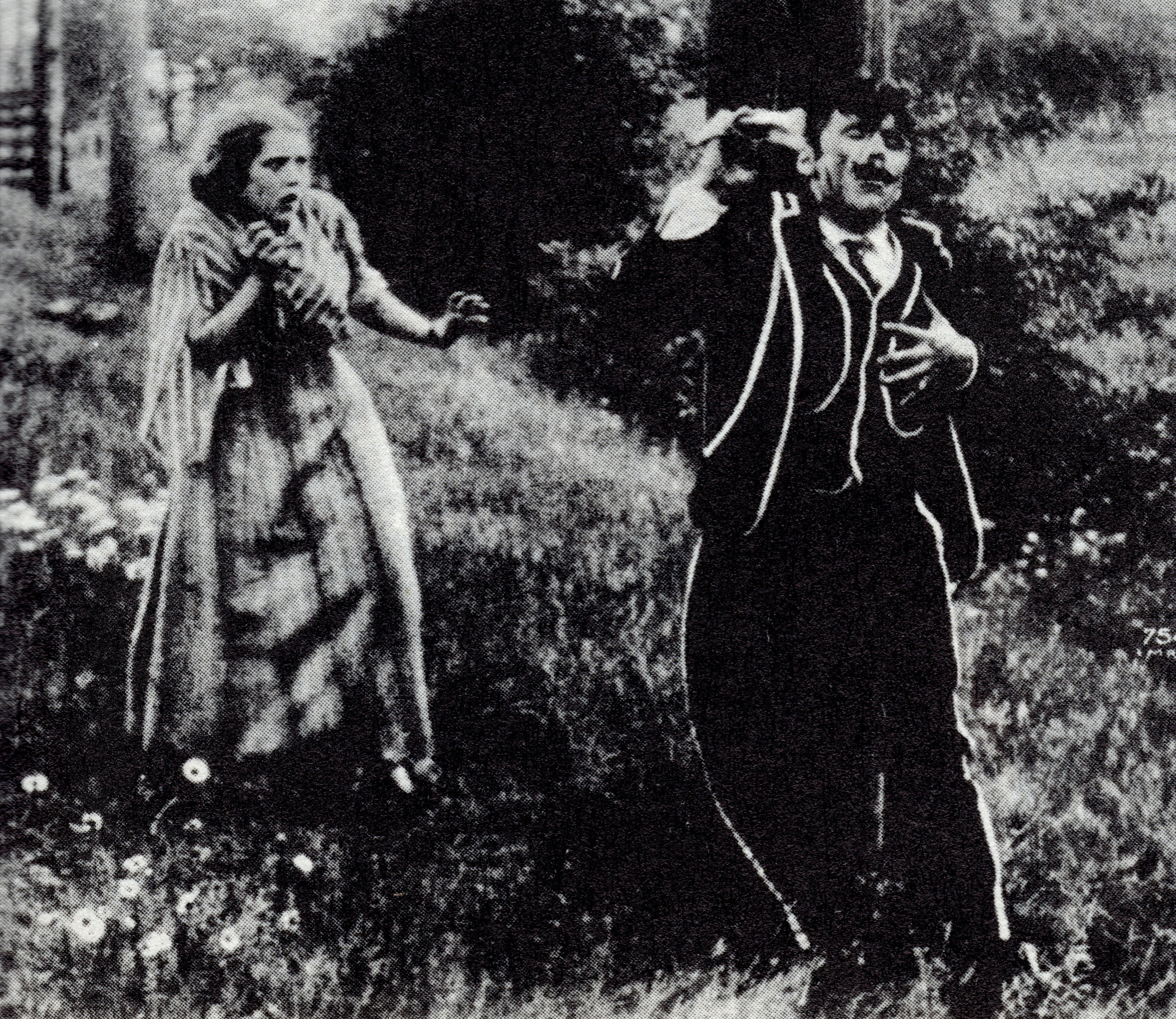 Mary Pickford and Mack Sennett in 'An Arcadian Maid' (Biograph 1910)